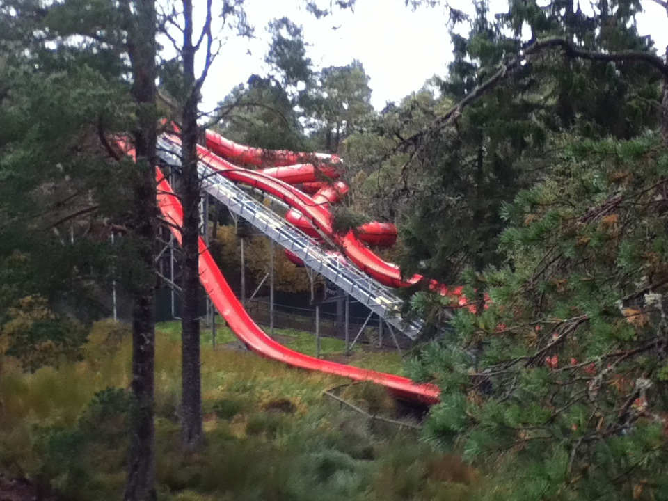 Waterslides at Landmark Forest Theme Park in Scotland, UK. Taken with an iPod Touch 4G.